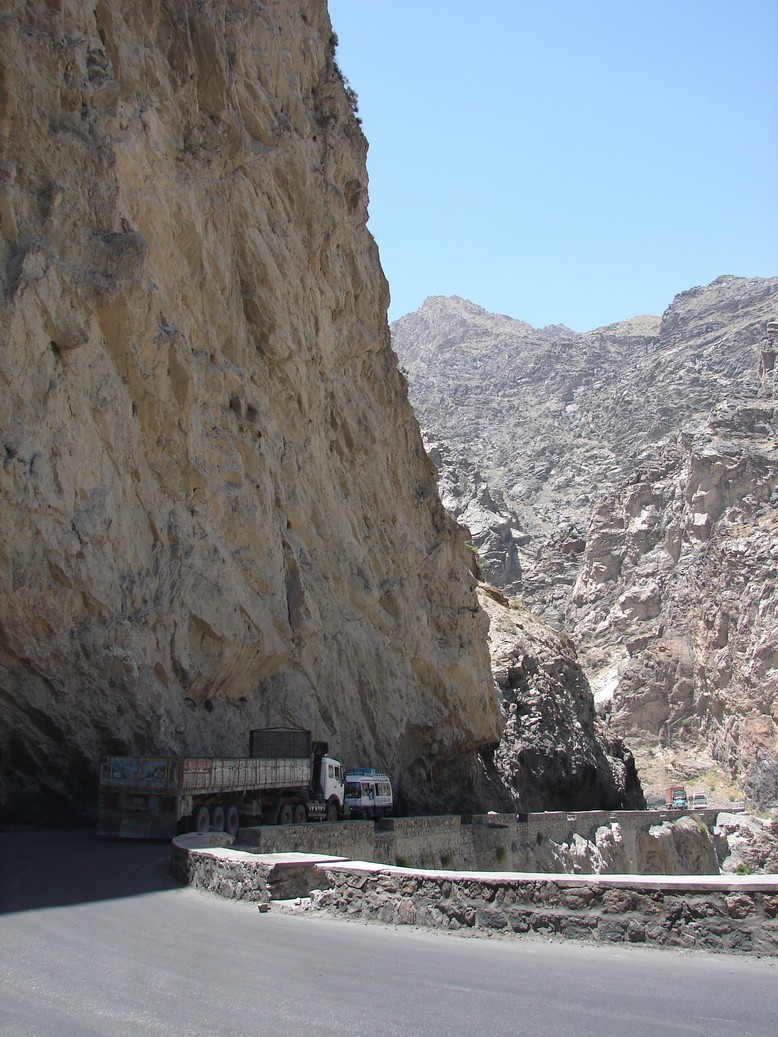 Mahi-Par Mountain Pass in eastern Afghanistan.